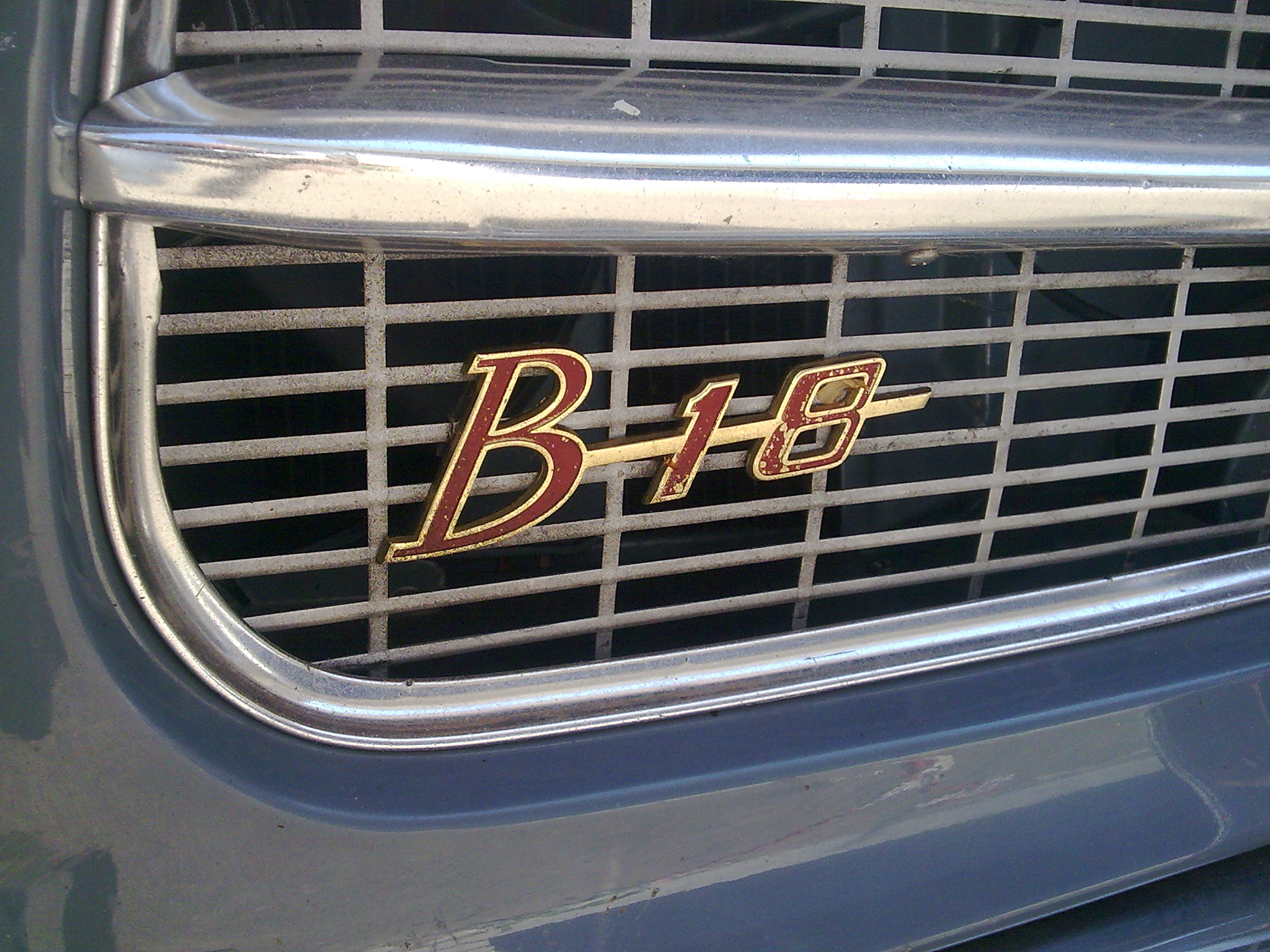 Grille badge Classic Volvo Amazon 1963 1800 cc engine